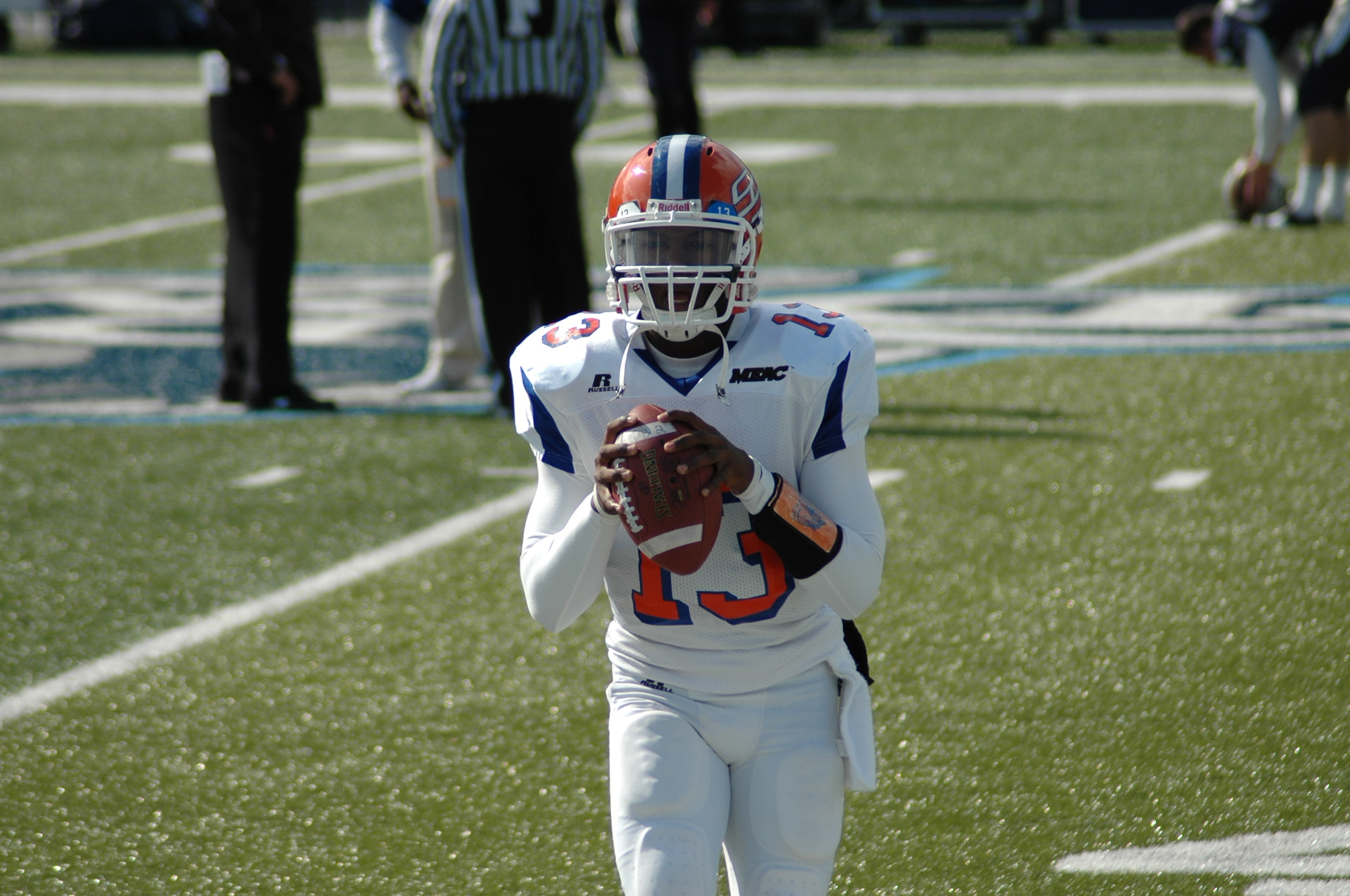 Photo of Savannah State University Quarterback Antonio Bostic. Taken November 6, 2010 in Norfolk, Virginia